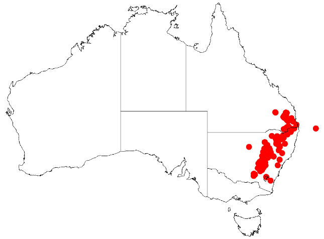 Acacia leucoclada Occurrence data from Australasia Virtual Herbarium downloaded from on 8 December 2018